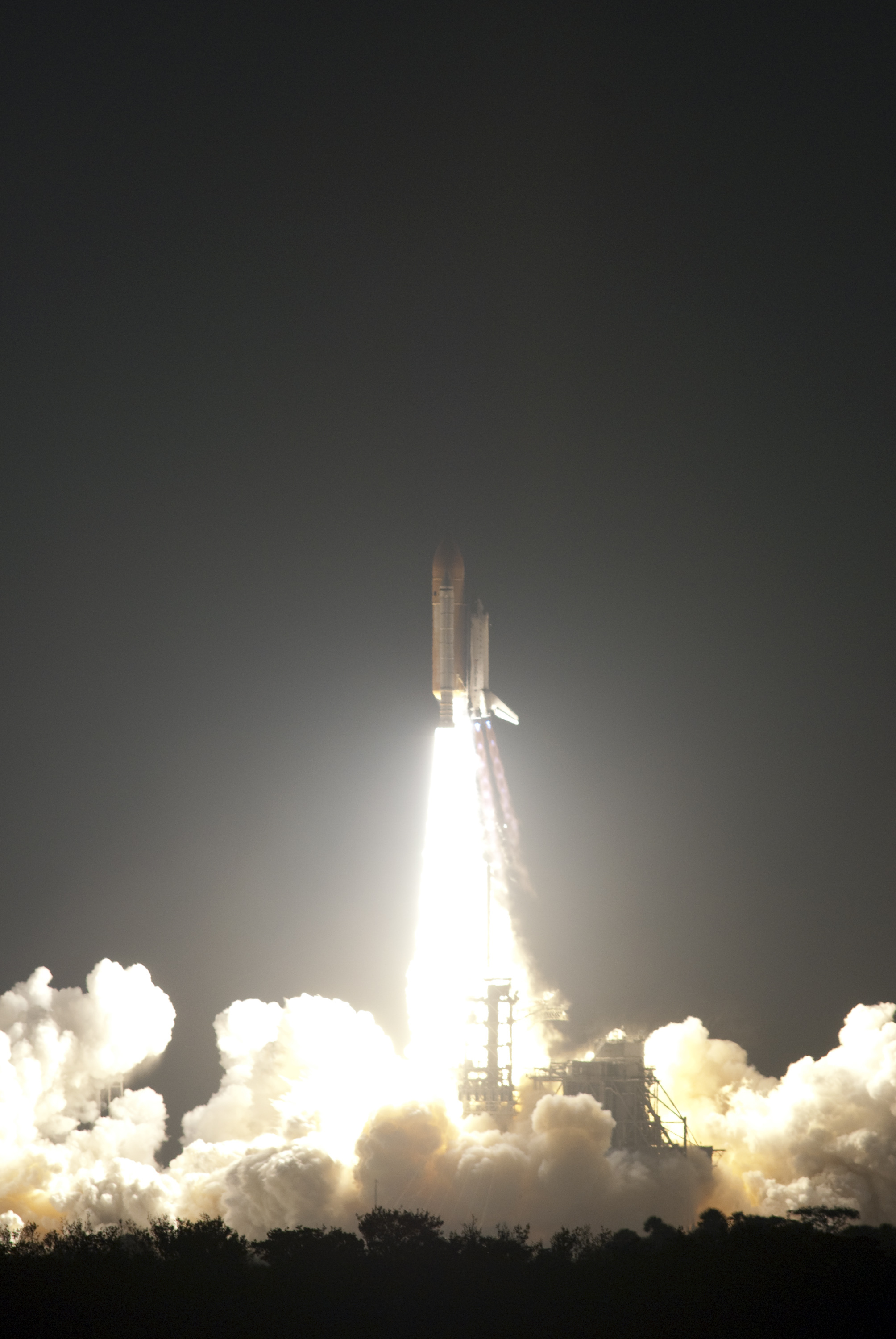 Space shuttle Endeavour lights up the predawn sky above Florida's Space Coast as it lifts off Launch Pad 39A at NASA's Kennedy Space Center. Launch of the STS-130 mission to the International Space Station was at 4:14 a.m. EST. This was the second launch attempt for space shuttle Endeavour's STS-130 crew and the final scheduled space shuttle night launch. The first attempt on Feb. 7 was scrubbed due to unfavorable weather. The primary payload for the STS-130 mission to the International Space Station is the Tranquility node, a pressurized module that will provide additional room for crew members and many of the station's life support and environmental control systems. Attached to one end of Tranquility is a cupola, a unique work area with six windows on its sides and one on top. The cupola resembles a circular bay window and will provide a vastly improved view of the station's exterior. The multi-directional view will allow the crew to monitor spacewalks and docking operations, as well as provide a spectacular view of Earth and other celestial objects. The module was built in Turin, Italy, by Thales Alenia Space for the European Space Agency.